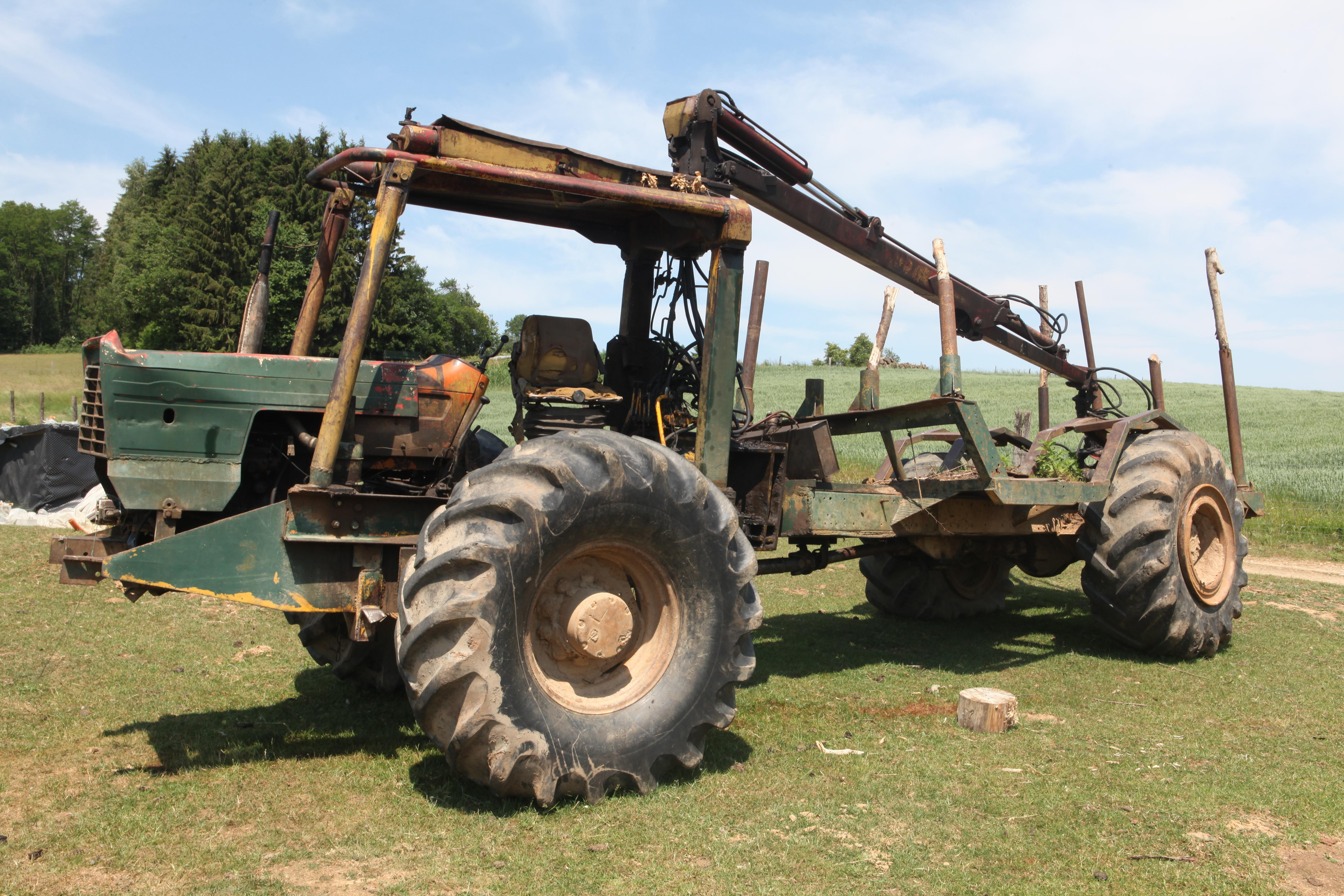 An old Belarus forwarder